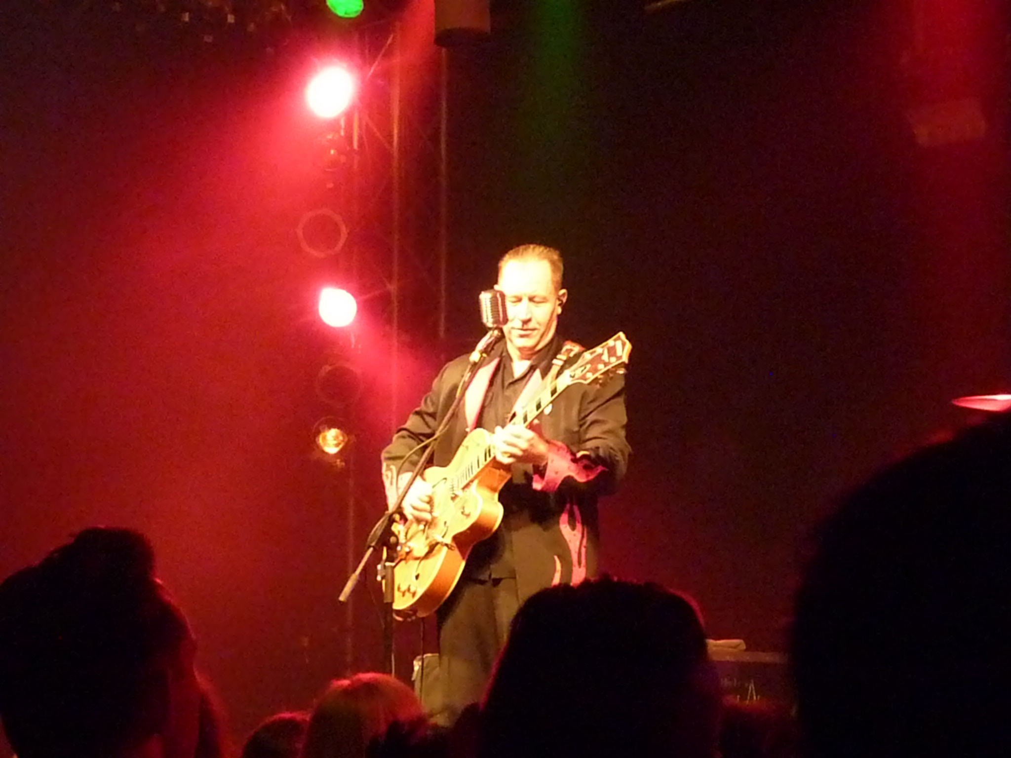 Jim Heath (Reverend Horton Heat) live at the Essigfabrik, Cologne